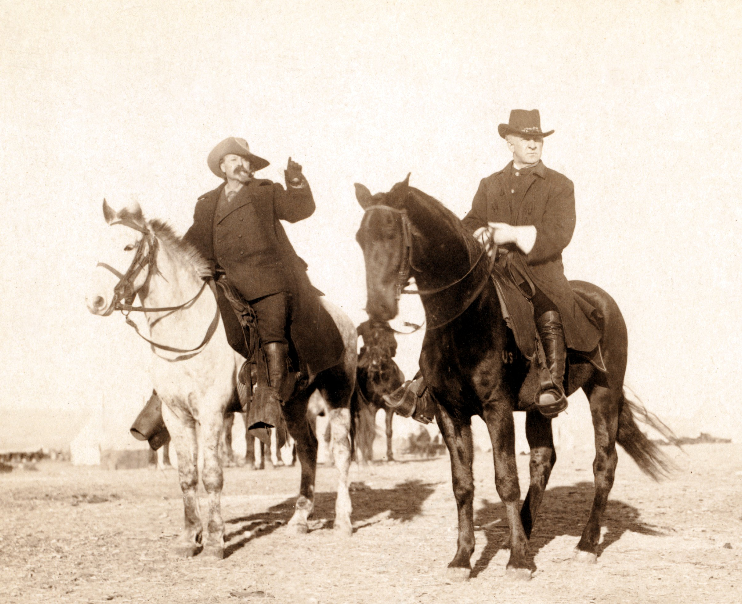 Original title Viewing Hostile Indian Camp Group portrait of Buffalo Bill, General Miles, Captain Frank Baldwin, and Captain Marion P. Maus, facing front, all four on horseback.